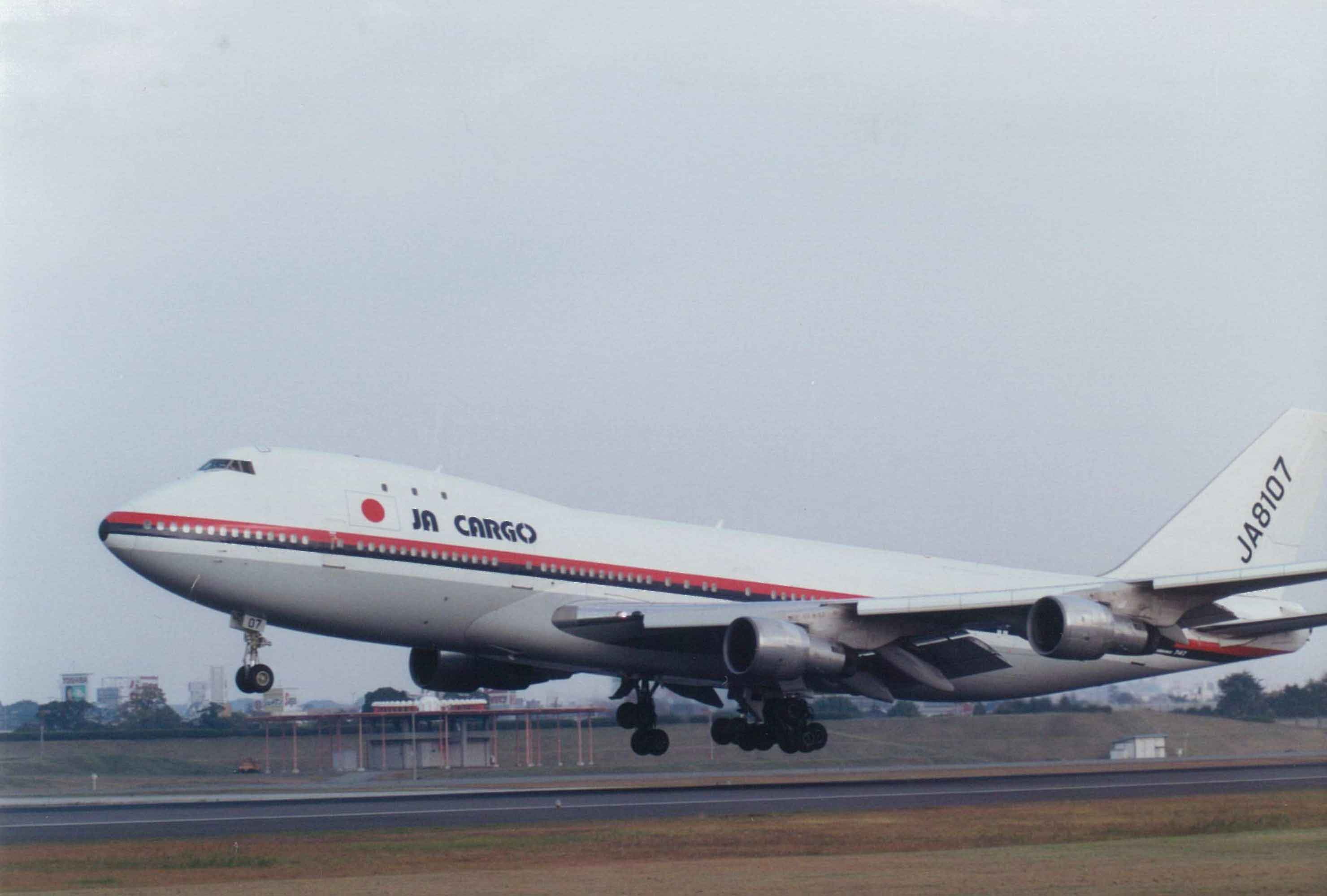 It is JAL CARGO which it photographed in Itami, Osaka Airport.